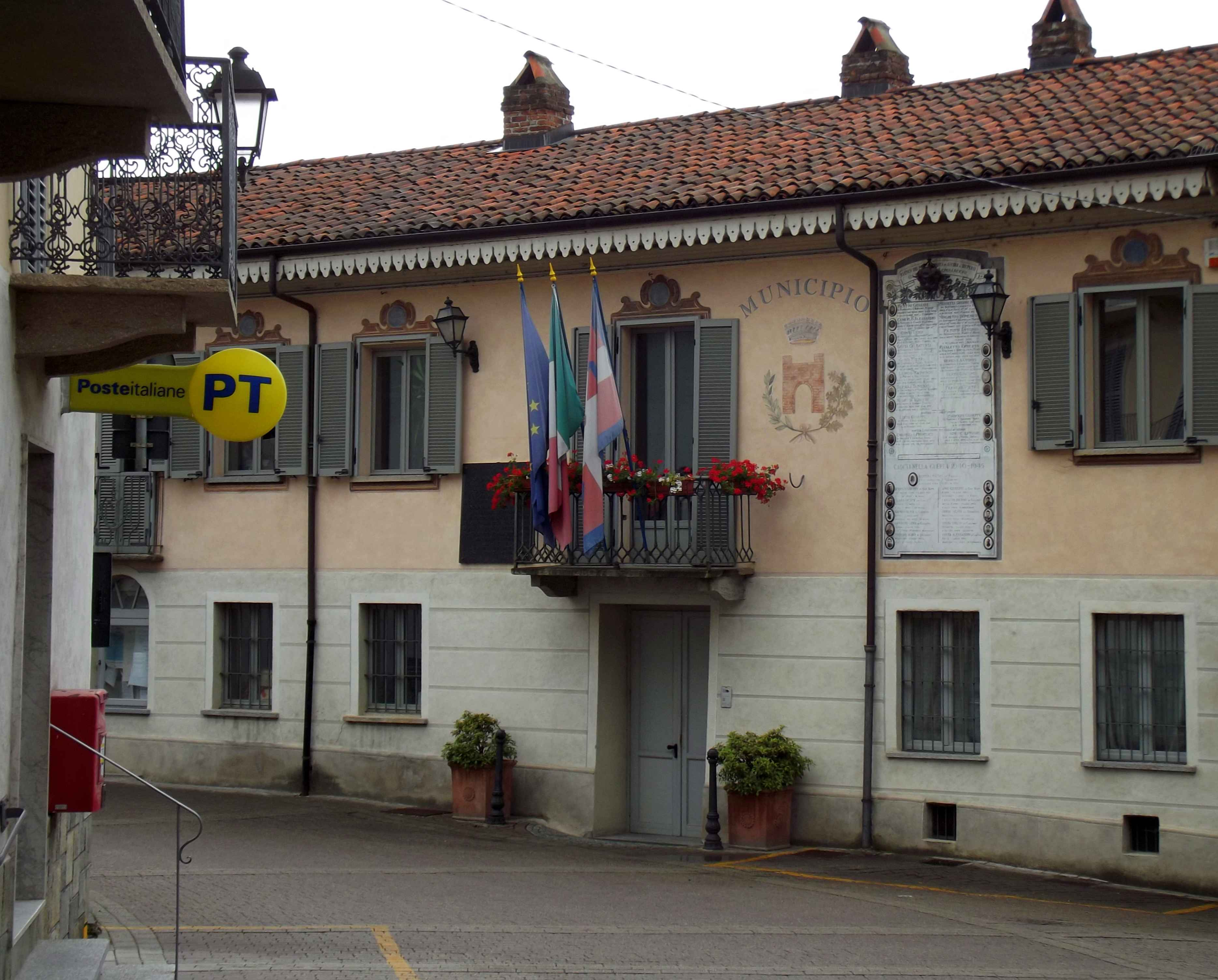 Lombardore (TO, Italy): town hall